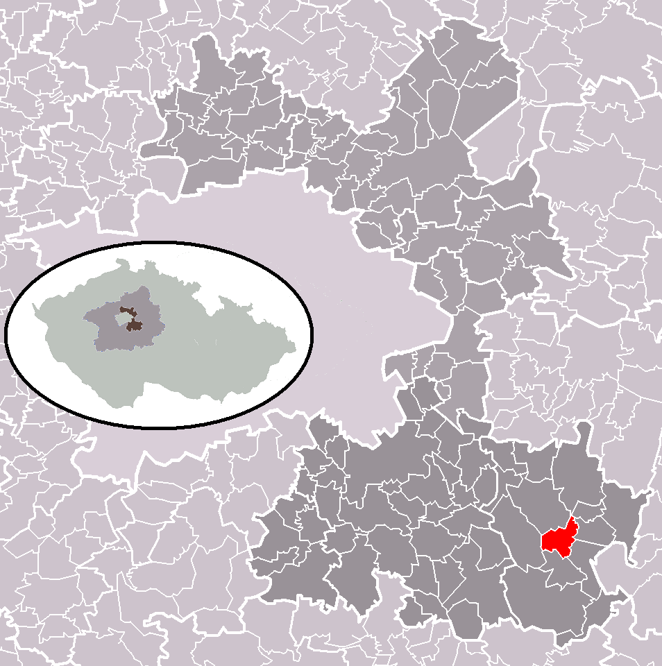 Location of Konojedy municipality within Prague-East District and administrative area of Říčany as a Municipality with Extended Competence.